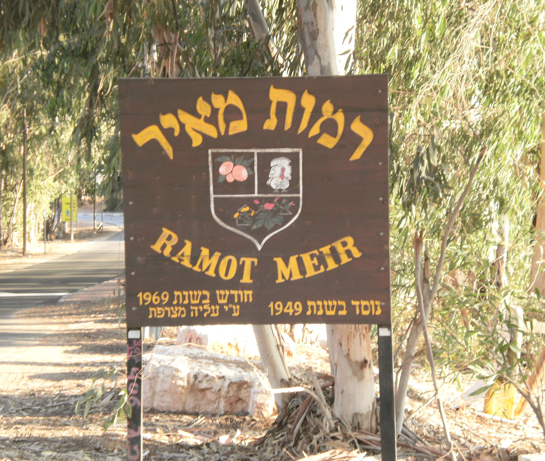 sign at entrance to Moshav Ramot Meir, Gezer Regional Council, Israel